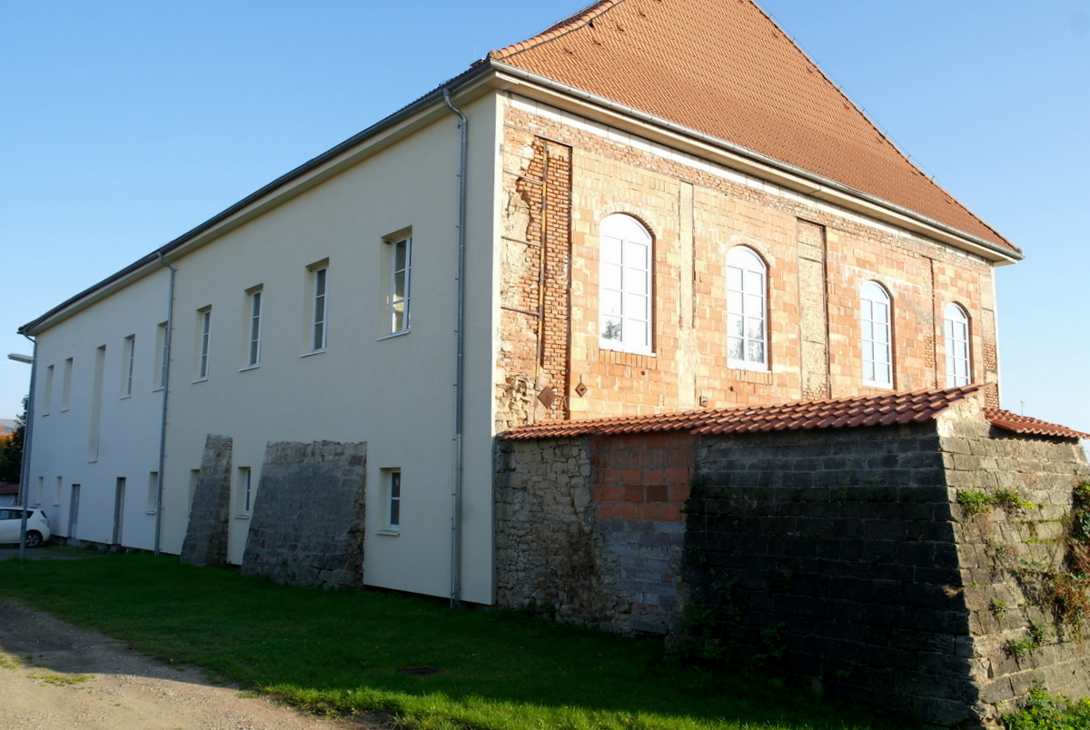 Large Farmstead in renovation, Dolní Kamenice 1, okres Kladno